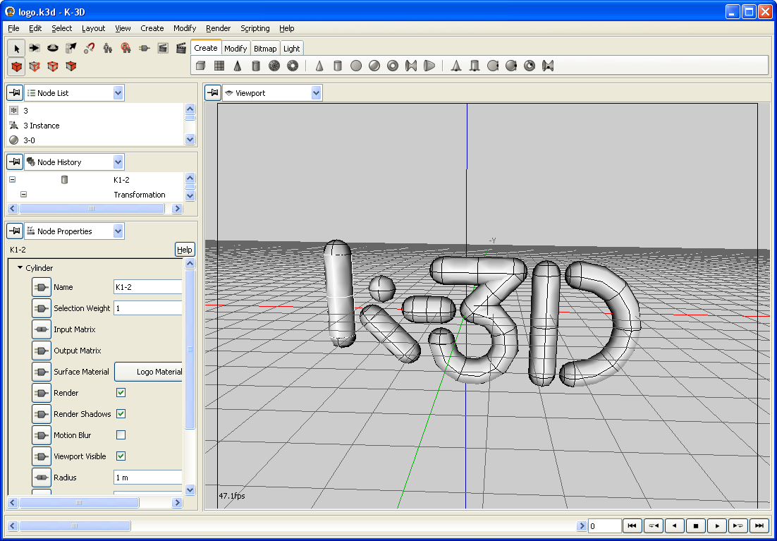 K-3D screenshot